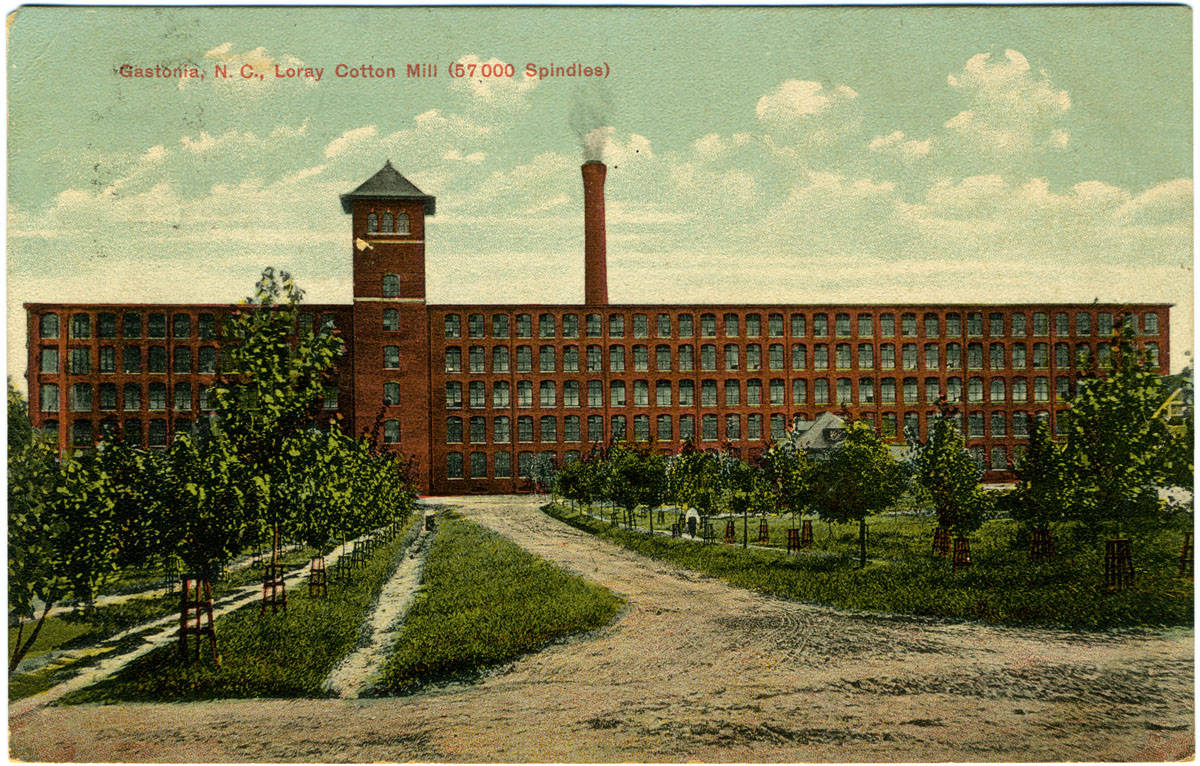 Message on back of card: "I am here until Wednesday Morning then to Hickory hope you are having a fine time. Avery." Addressed to: "Miss Bulah Shaffer, 414 Cleveland St. Durham, N.C." Postmarked 28 December 1908.